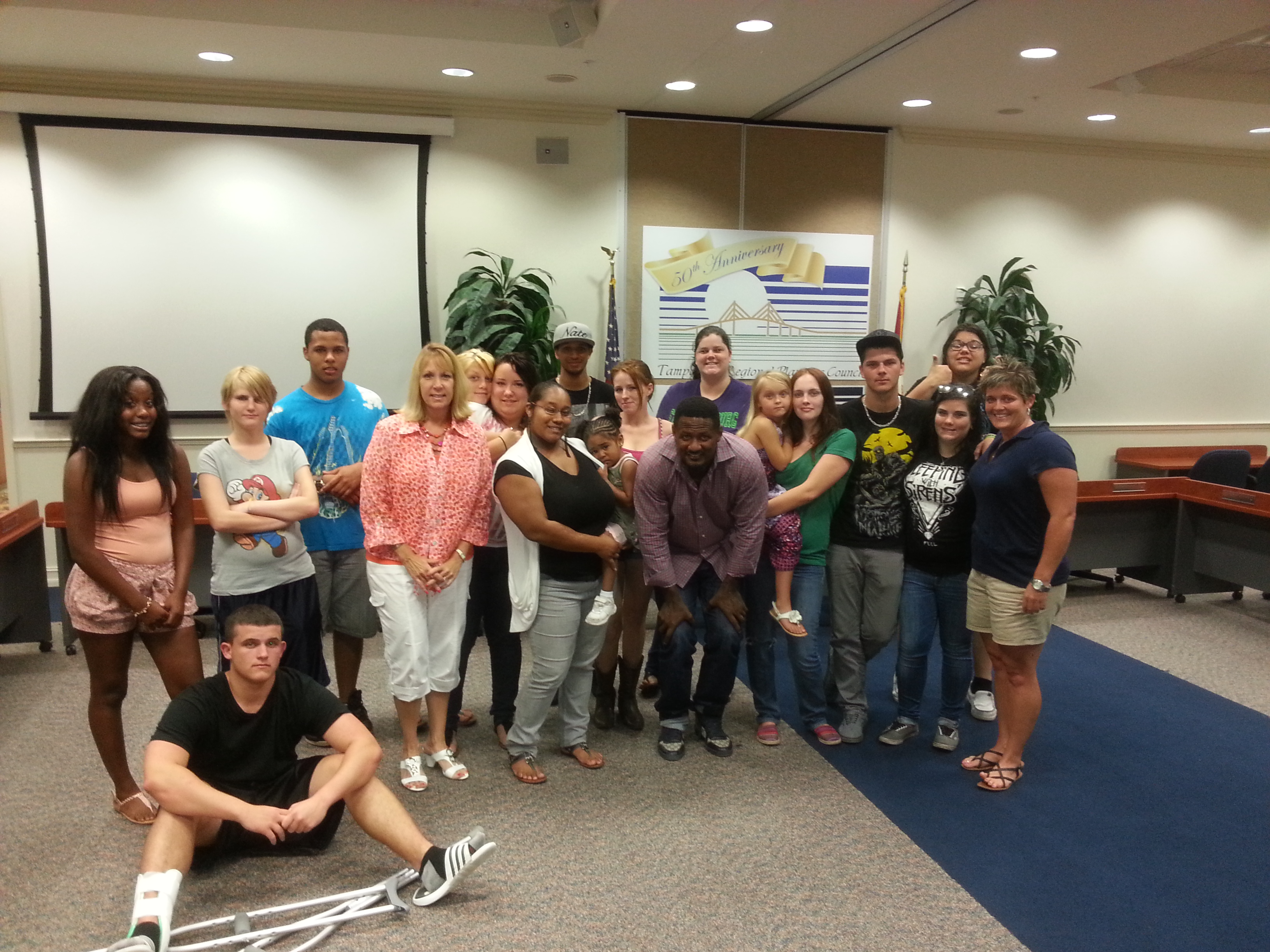 Freddie Mitchell during one of his Ready For Life appearances, pictured with the charity's Executive Director.